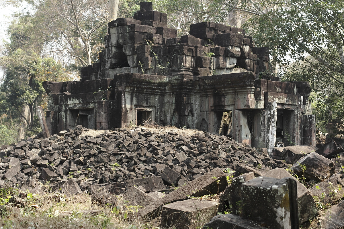 Remaining parts of the central sanctuary of Preah Khan of Kampong Svay, Cambodia